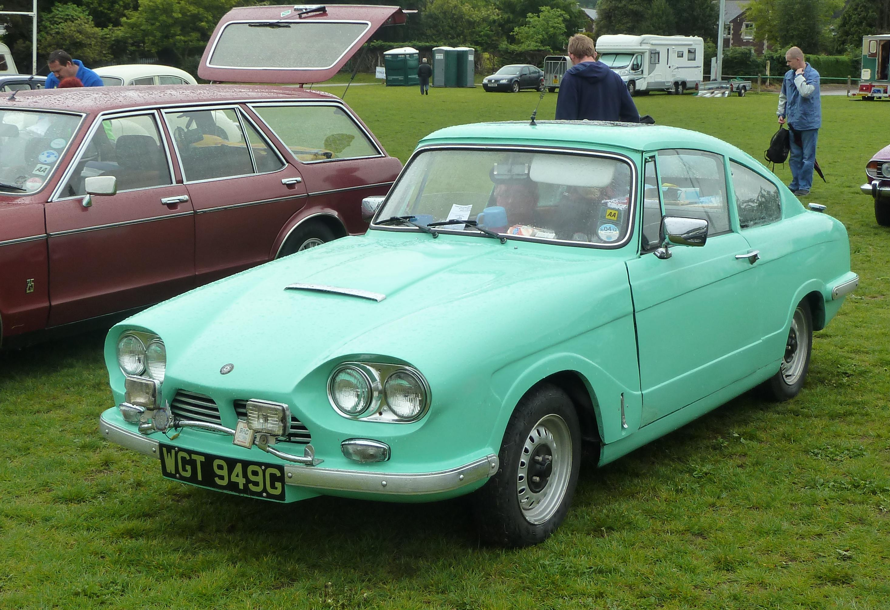 Bond GT4S Abergavenny steam rally, 2011.